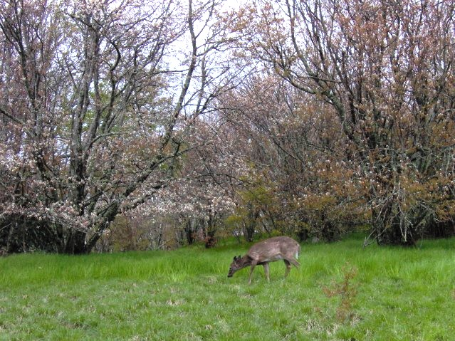 Doe grazing along the Appalachian Trail at Spence Field, in the Great Smoky Mountains. Spence Field is a highland meadow, once part of a large pastureland. Its elevation is 4,950 feet/1,509 meters.